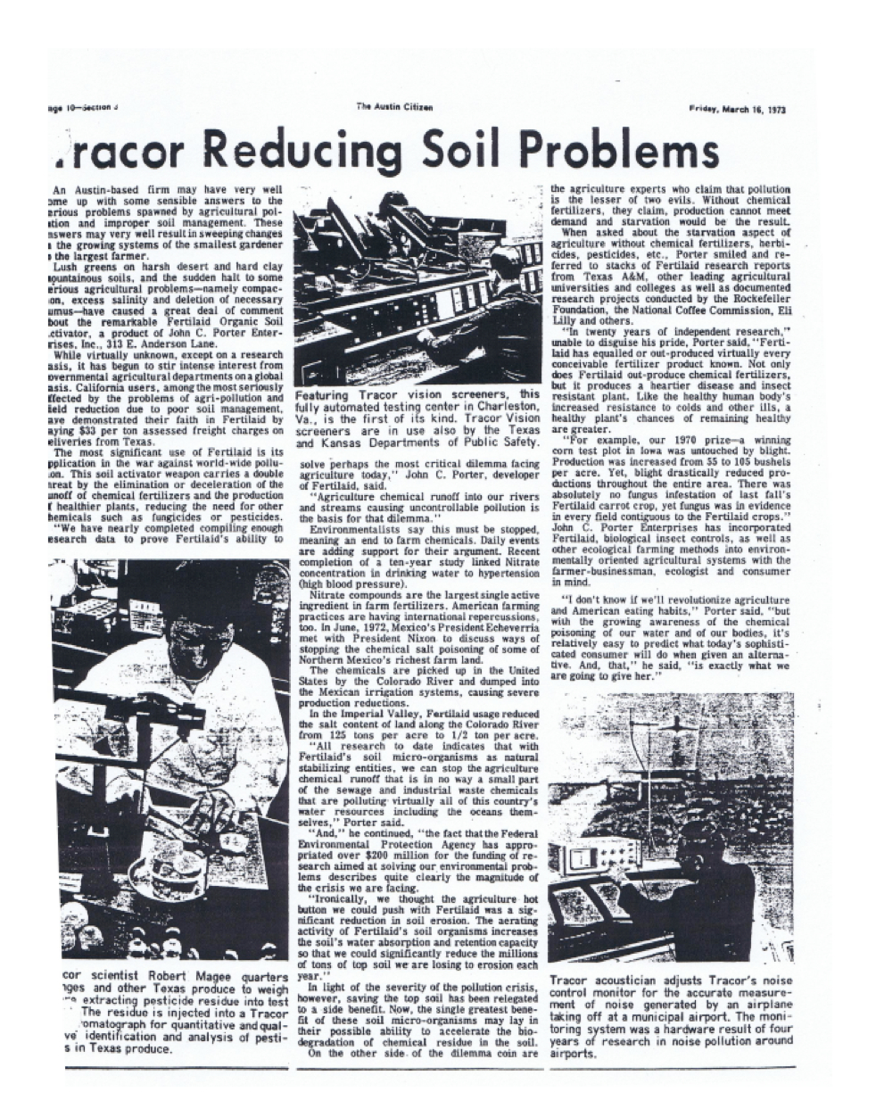 This is an article about Fertilaid, John V. Porter and John C. Porter